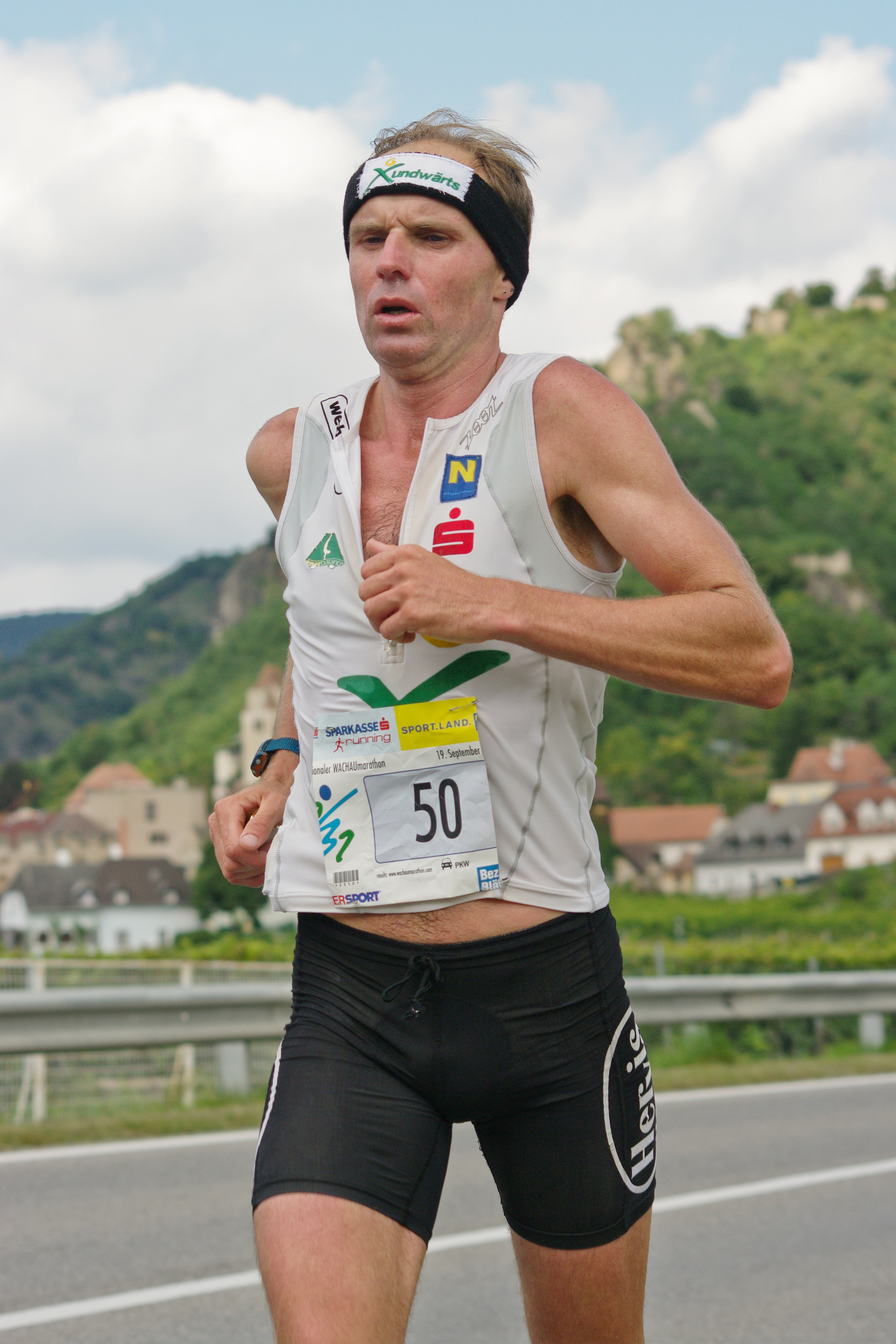 Austrian triathlet Alexander Frühwirth in the Wachaumarathon 2010 in Dürnstein, Austria.